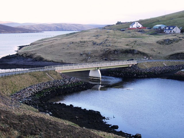 Bridge to Muckle Roe, Shetland. This bridge links the Mainland to Muckle Roe. Photo taken looking south.